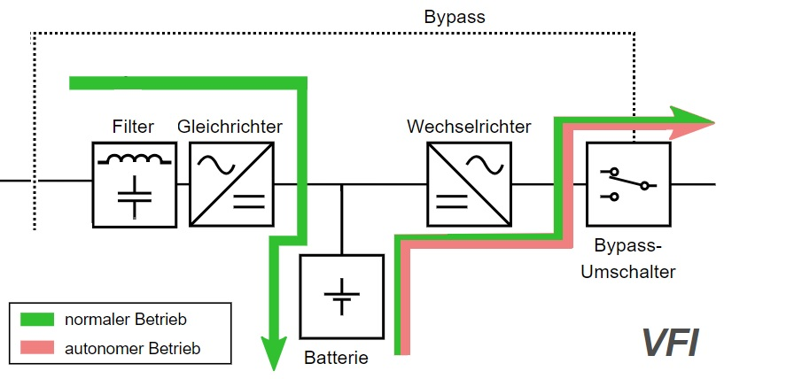 Scematic VFI Design